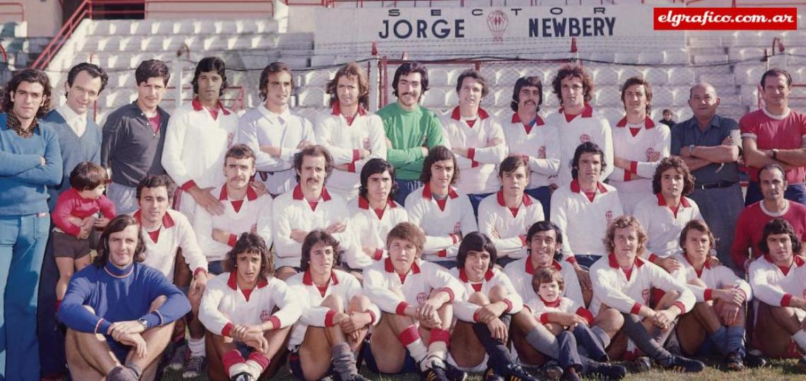 The Huracán complete team